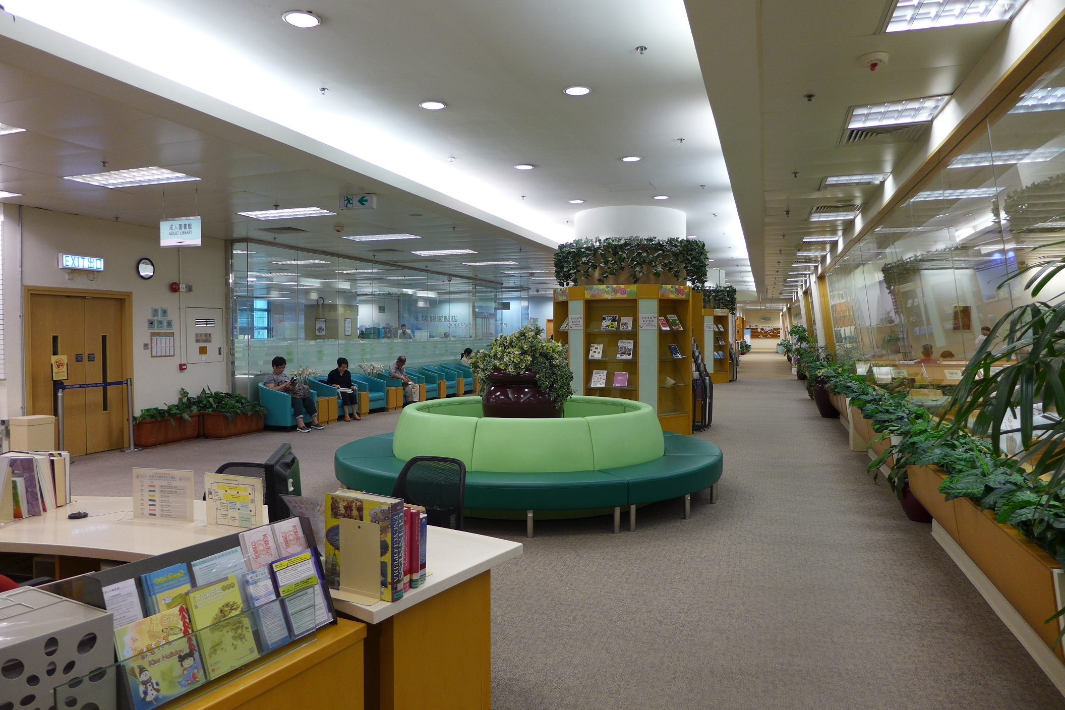 Fanling Public Library